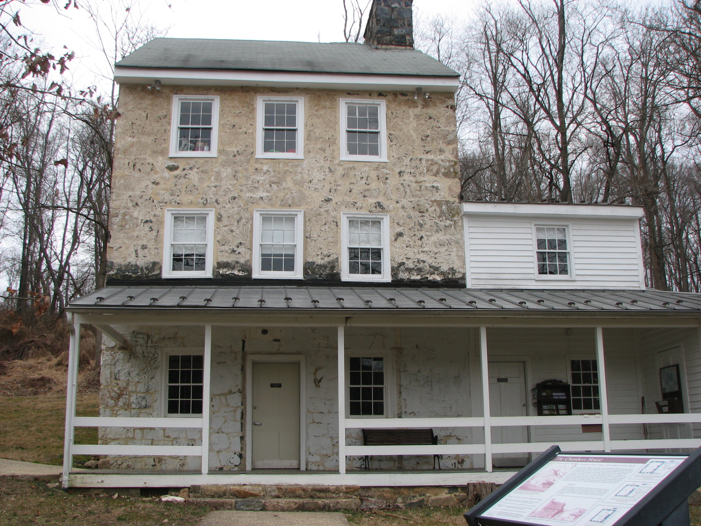 The nature center for White Clay Creek State Park, originally the Chambers House. This shows the rear of the original house, now the main entrance. The building is listed on the National Register of Historic Places.